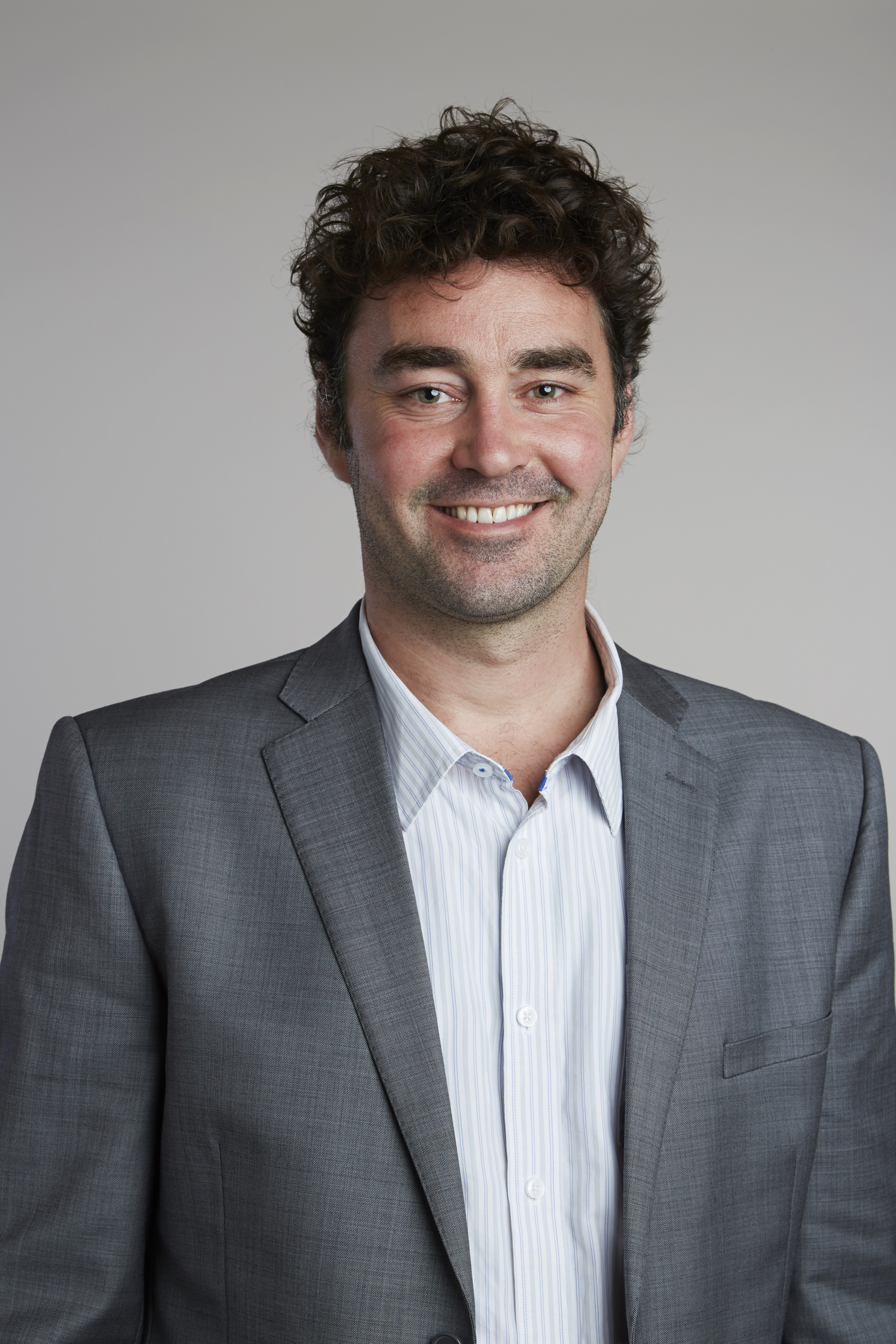 Professor Henry Snaith has pioneered the development of hybrid materials for energy and photovoltaics through an interdisciplinary combination of materials synthesis, device development, advanced optoelectronic characterisations and theoretical studies. He has created new materials with advanced functionality and enhanced understanding of fundamental mechanisms. His recent discovery of extremely efficient thin-film solar cells manufactured from organic-inorganic metal halide perovskites has reset aspirations within the photovoltaics community. His work has started a new field of research, attracting both academic and industrial following, propelled by the prospect of delivering a higher efficiency photovoltaic technology at a much lower cost than existing silicon PV. Attribution: The Royal Society